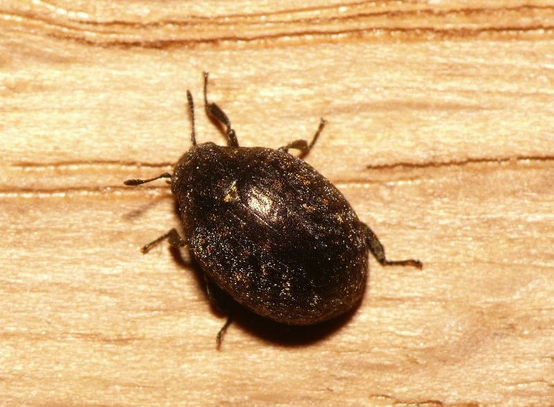 Cytilus auricomus. Location: The Netherlands - Rhenen - Blauwe Kamer